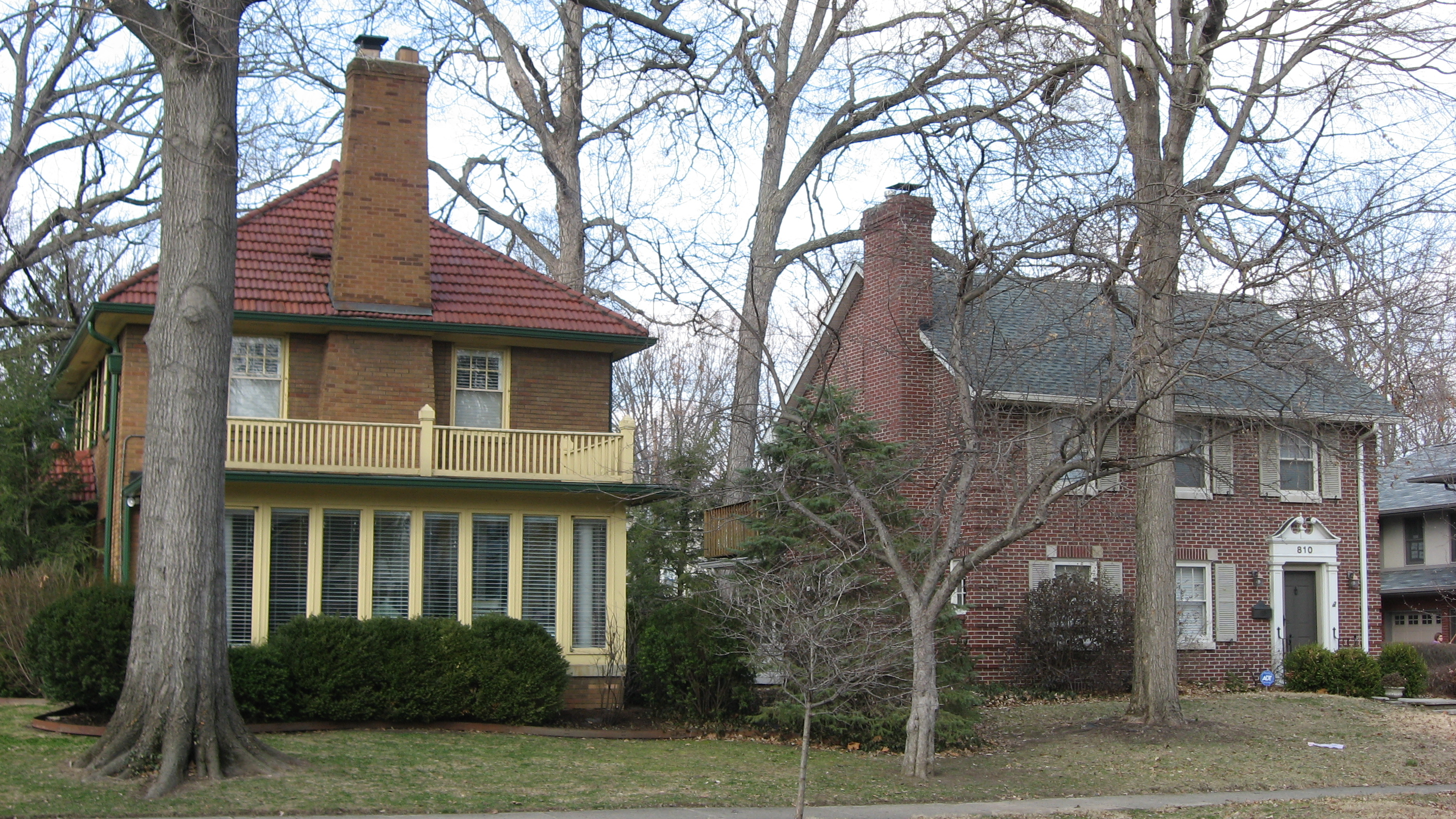 Houses on the northern side of the 800 block of E. 58th Street in Indianapolis, Indiana, United States. This block is part of the Forest Hills Historic District, a historic district that is listed on the National Register of Historic Places.